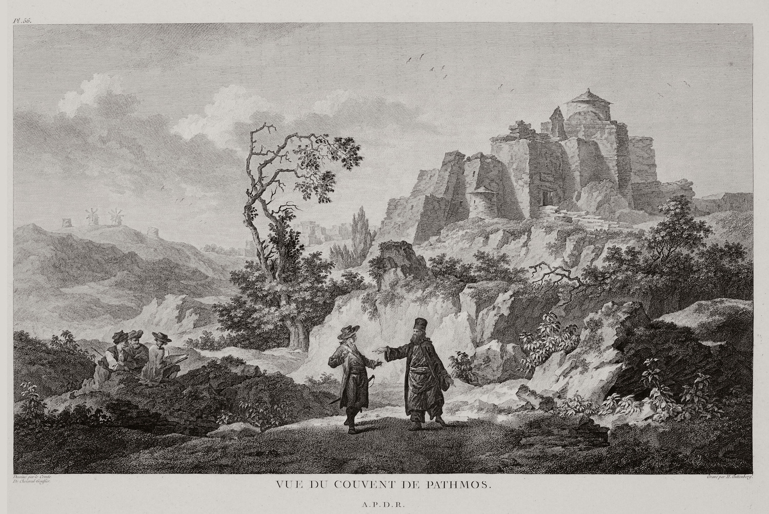 Marie-Gabriel-Florent-Auguste Comte de Choiseul-Gouffier. Voyage pittoresque de la Grèce. Paris, J.-J. Blaise M.DCCC.IX, (1782 1st volume, 1809 2nd volume, 1822 3rd volume, 1842 2nd edition)